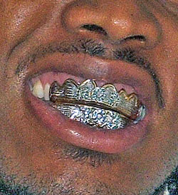 Photo of a man with a dental grill, taken in 2006 or 2007 by me, Louis F. Sander